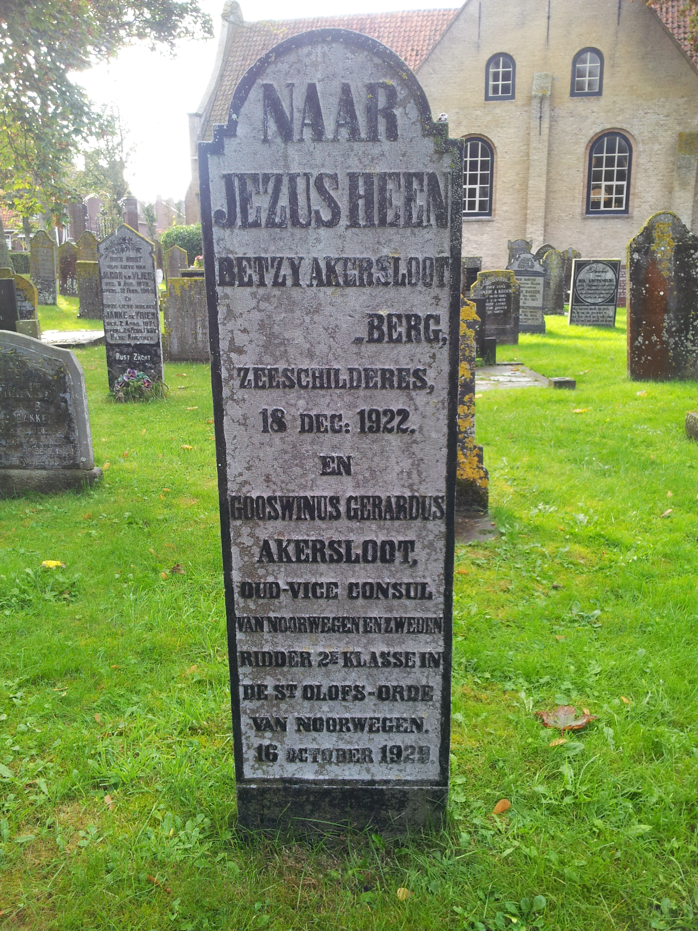 Vlieland Churchyard